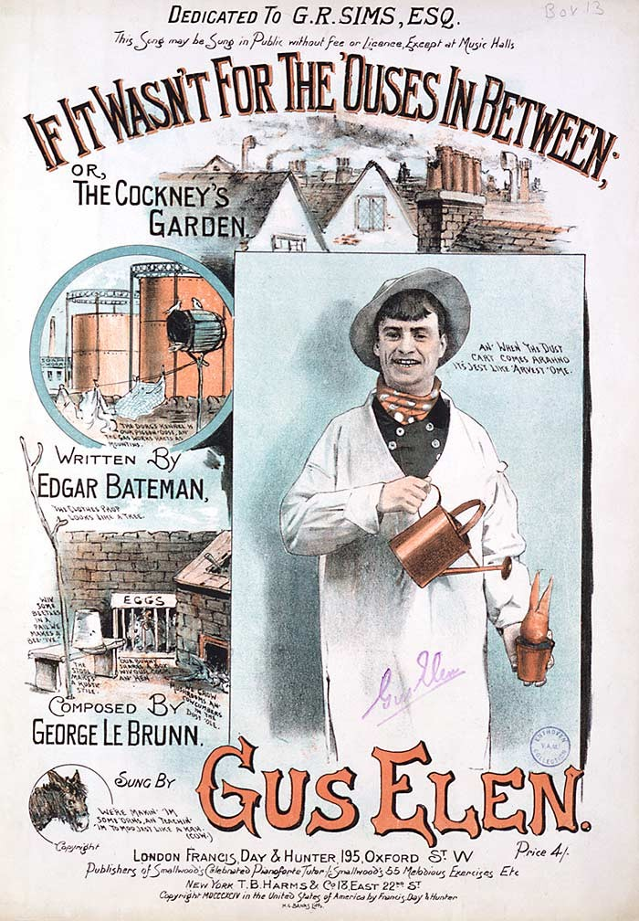 The source for this appears to be PlayPeople UK (V&A theatre museum) Probable source Claim of 'fair use' is actually wrong. The document was published between 1890 and 1910, this means that the song cover is not in copyright in the USA. This is a reproduction of the cover of the sheet music.